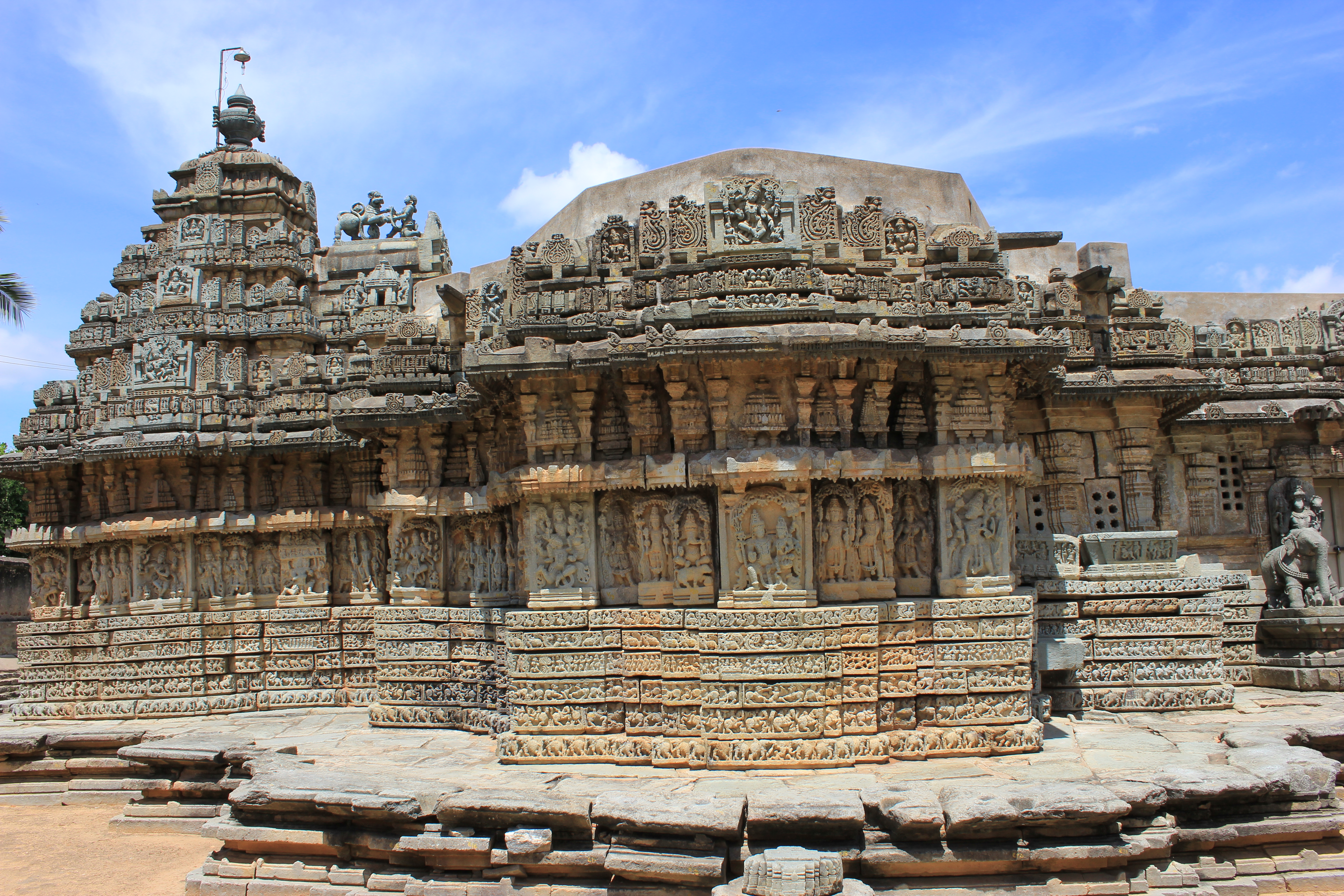 The Mallikarjuna temple is located in Basaralu, Mandya district, Karnataka state, India. The temple was built around 1234 A.D. during the rule of the Hoysala Empire King Vira Narasimha II